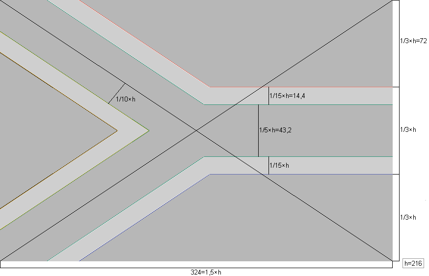 Construction sheet for the Flag of South Africa.